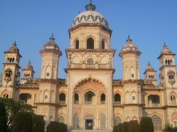 My personal photograph.